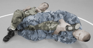 Two soldiers demonstrating a straight kneebar leglock.